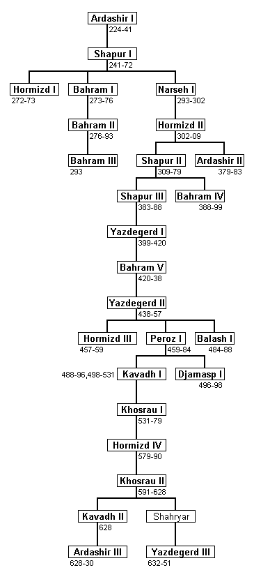 Genealogic tree of the sasanid dinasty of Persia.